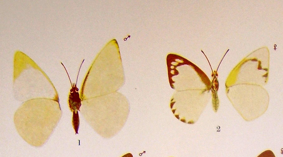 Appias albina from Woodhouse and Henry Butterfly Fauna of Ceylon